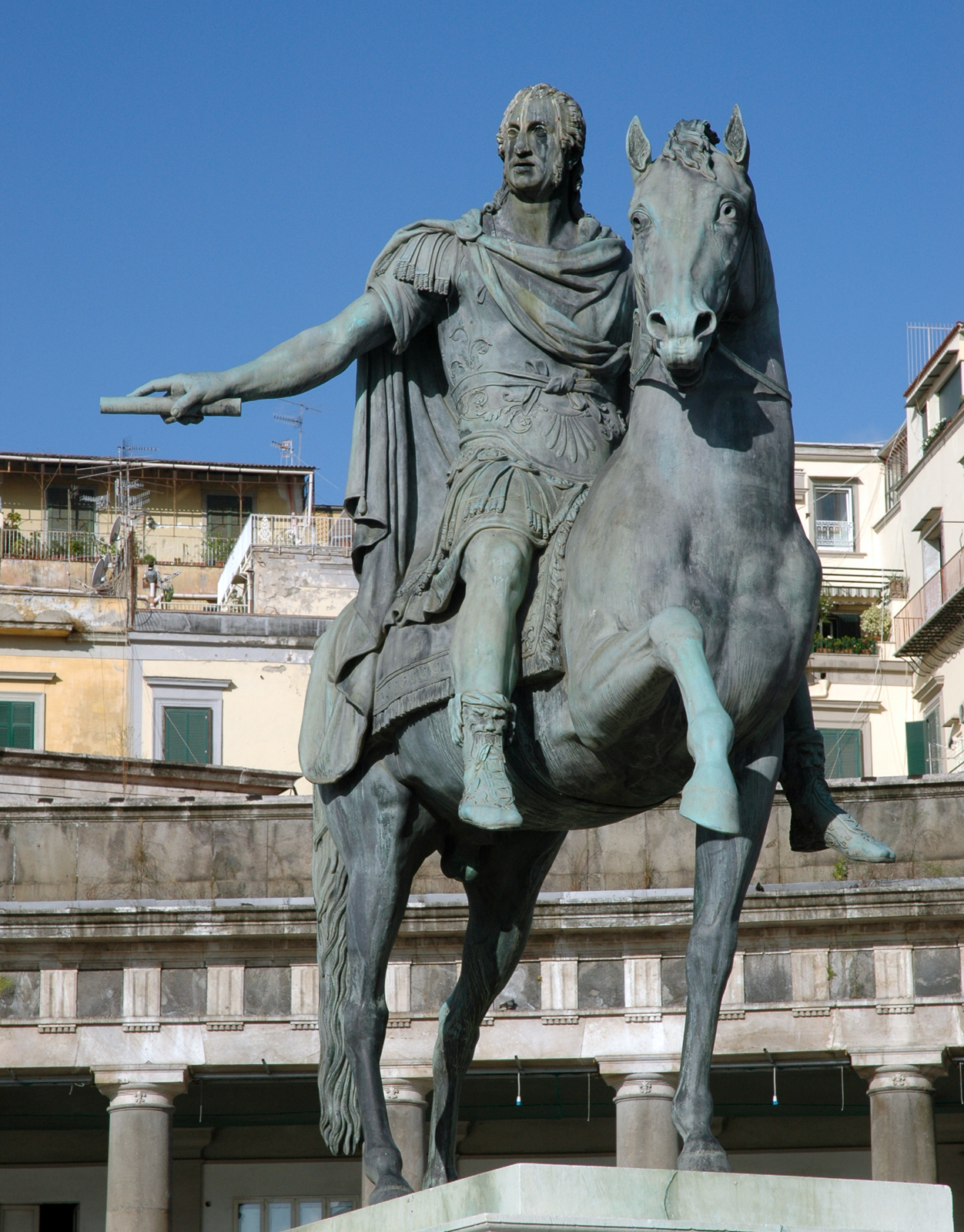 Antonio Canova - equestrian statue of Ferdinand I of the Two Sicilies (1751 –1825), Piazza del Plebiscito, Naples